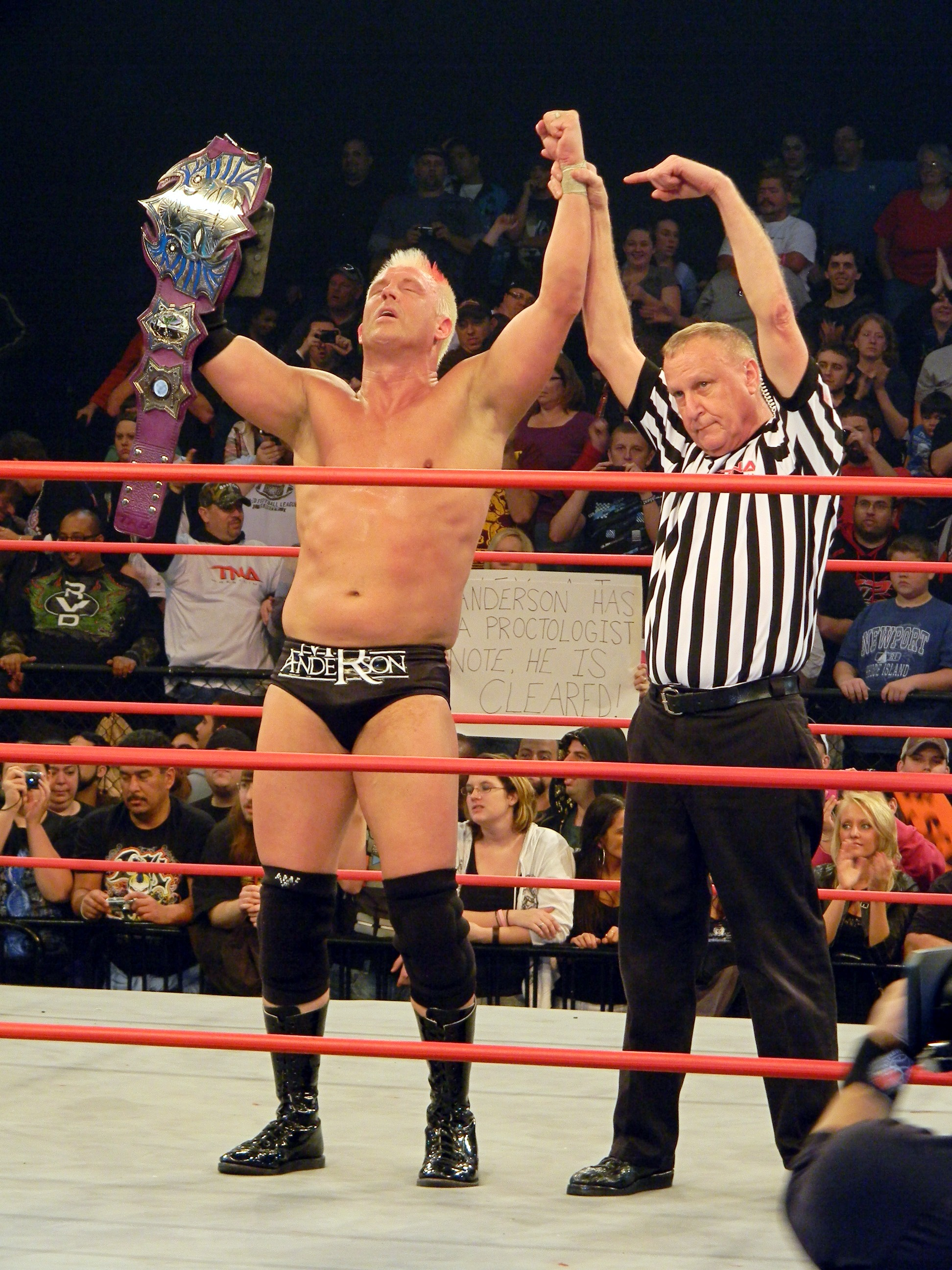 Earl Hebner raises Mr. Anderson's hand after winning the TNA Heavyweight from Jeff Hardy at the Genesis PPV.